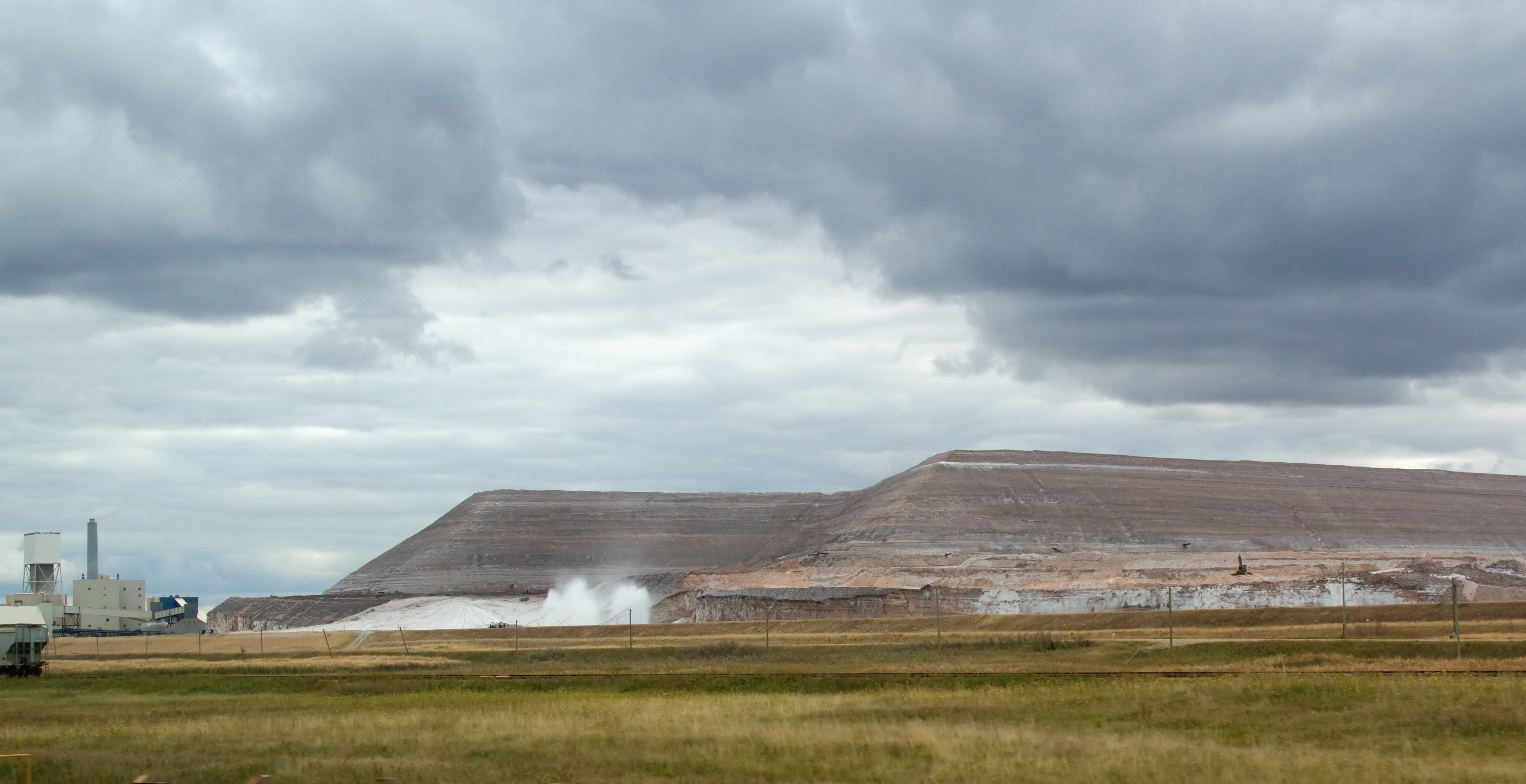 On the Train from Toronto to Edmonton